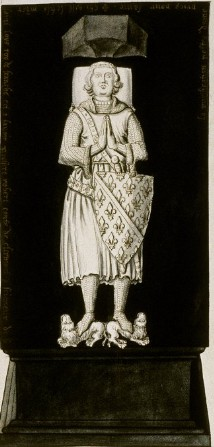 Robert of France (1256 – 7 February 1317)